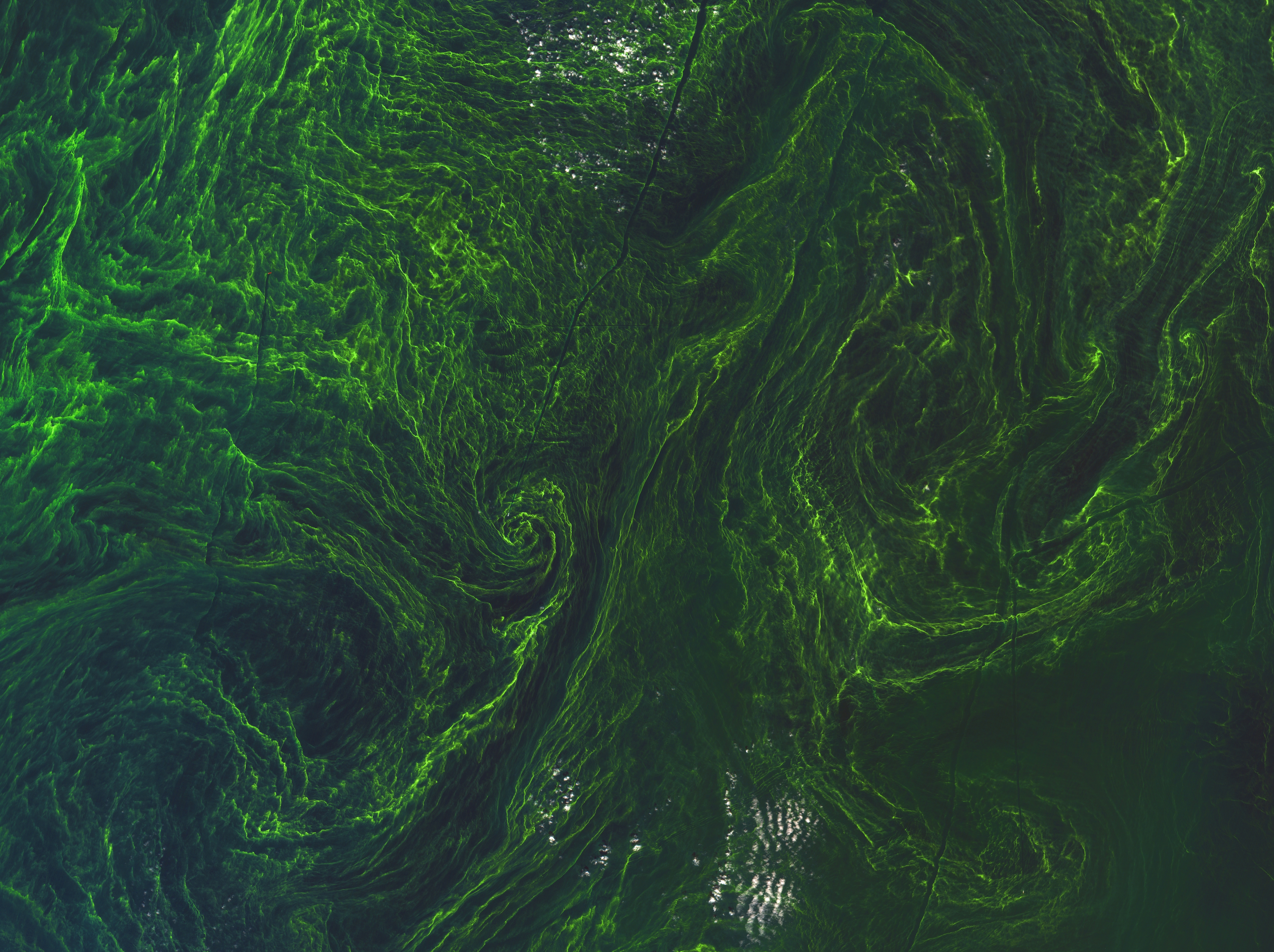 This red–blue–green composite image from Sentinel-2A taken on 7 August 2015 has a spatial resolution of 10 m. It shows an algal bloom in the central Baltic Sea. The algae is concentrated in locations where the vertical and horizontal water movements in the Baltic Sea generate the best nutrient and light conditions for algal growth, which are then drawn out by the water circulation. Read full article:Sentinel-2 catches eye of algal storm